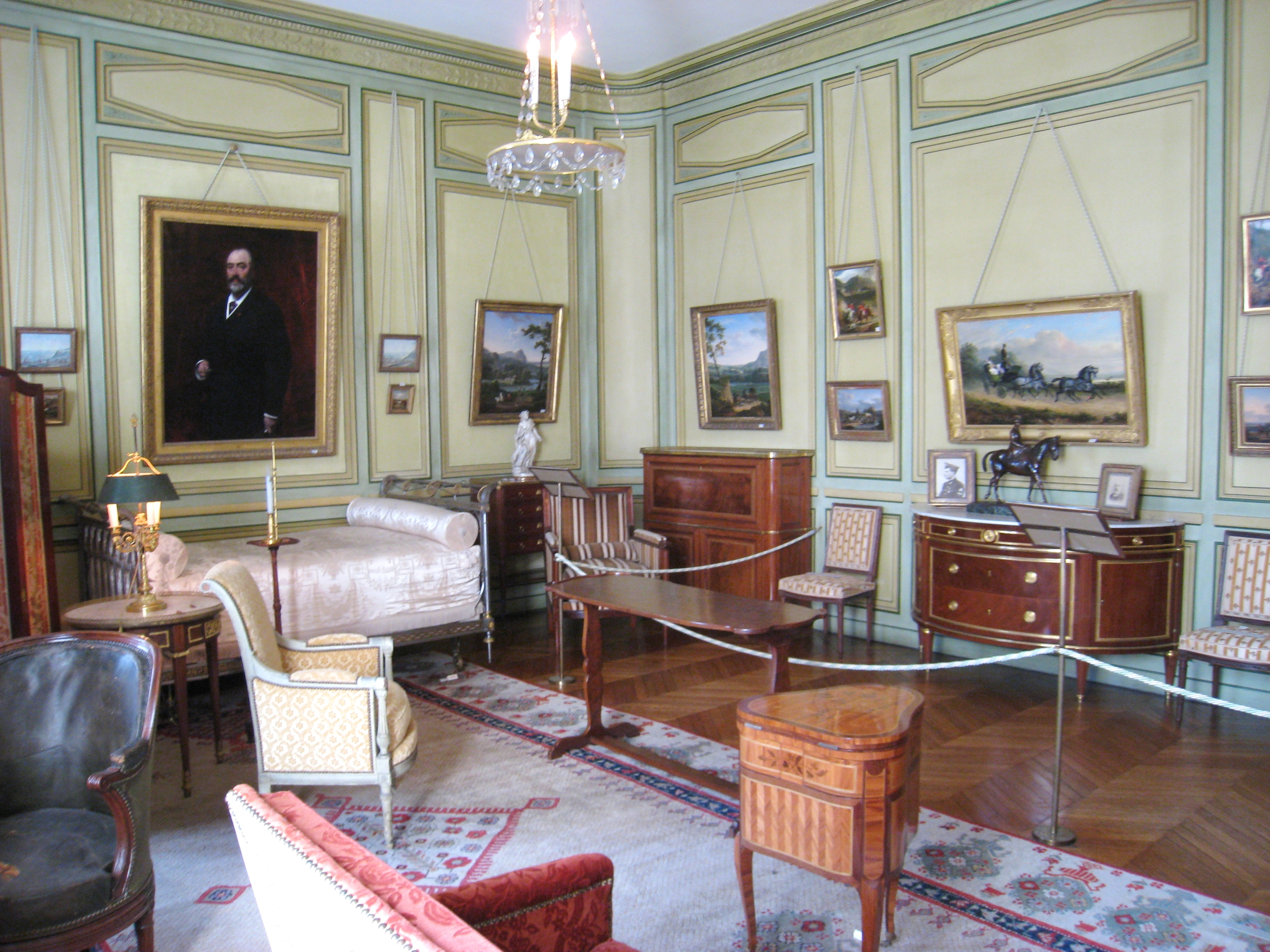 Musée Nissim de Camondo, Paris, France - Bedroom (son). There were no restrictions on photography (other than prohibiting flash) in writing and when I asked explicitly. Thus the museum did not impose restrictions on the use of this image.